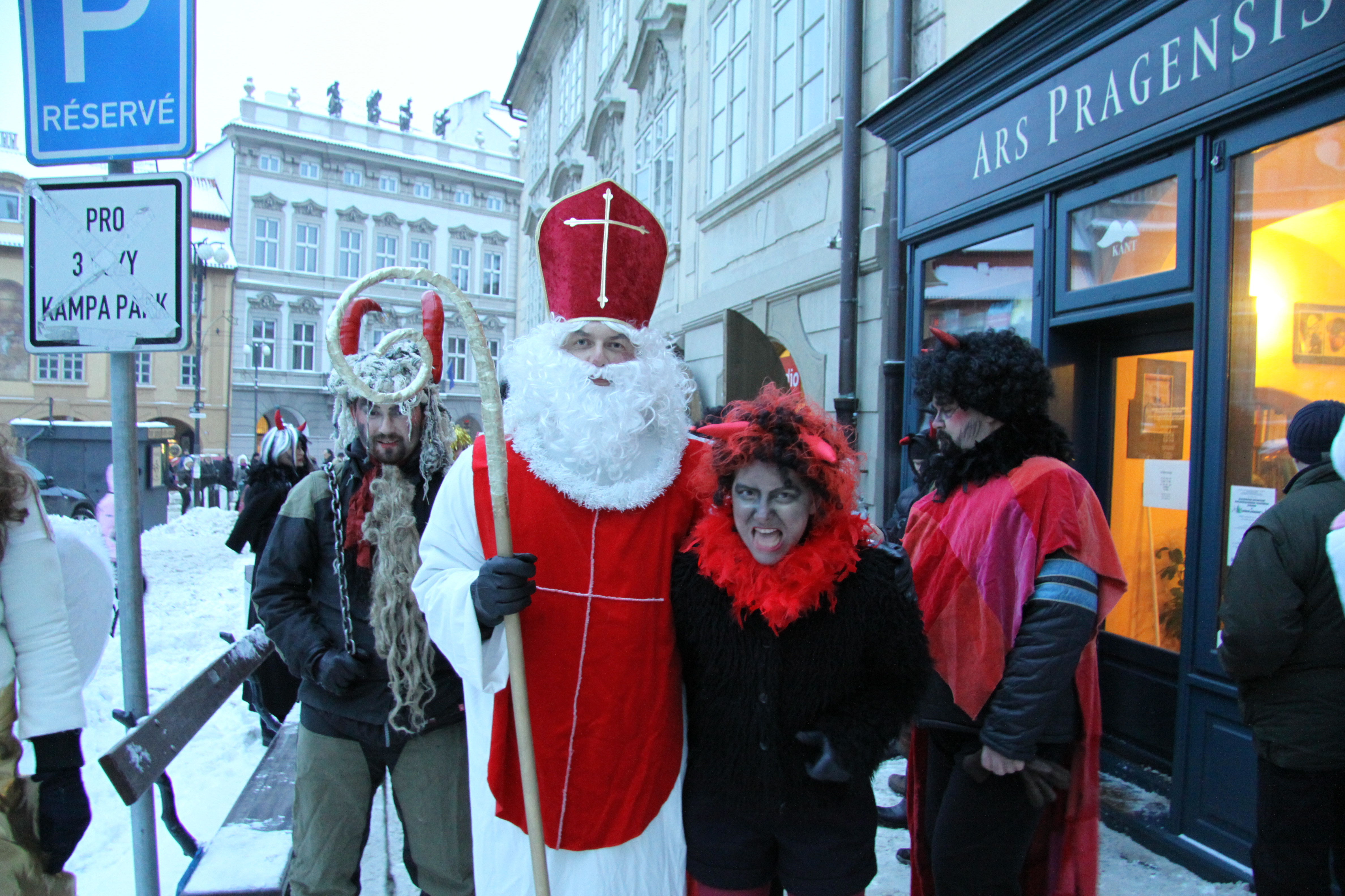 Traditional celebration of Saint Nicholas day in Czech Republic, Malá Strana, Prague Personality rights warning Although this work is freely licensed or in the public domain, the person(s) shown may have rights that legally restrict certain re-uses unless those depicted consent to such uses. In these cases, a model release or other evidence of consent could protect you from infringement claims.